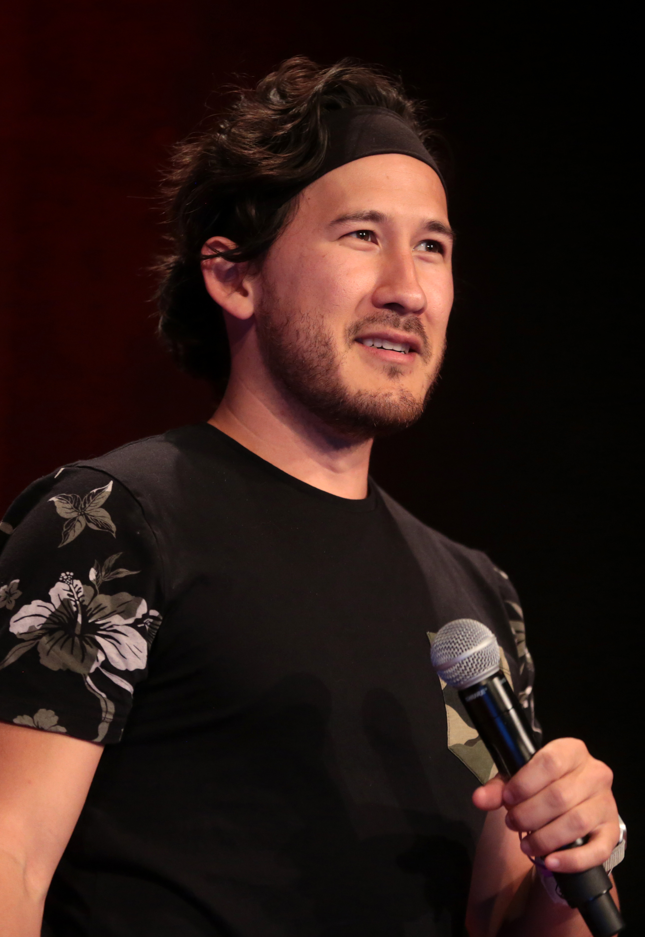 Markiplier speaking at the 2018 PAX West in Seattle, Washington.